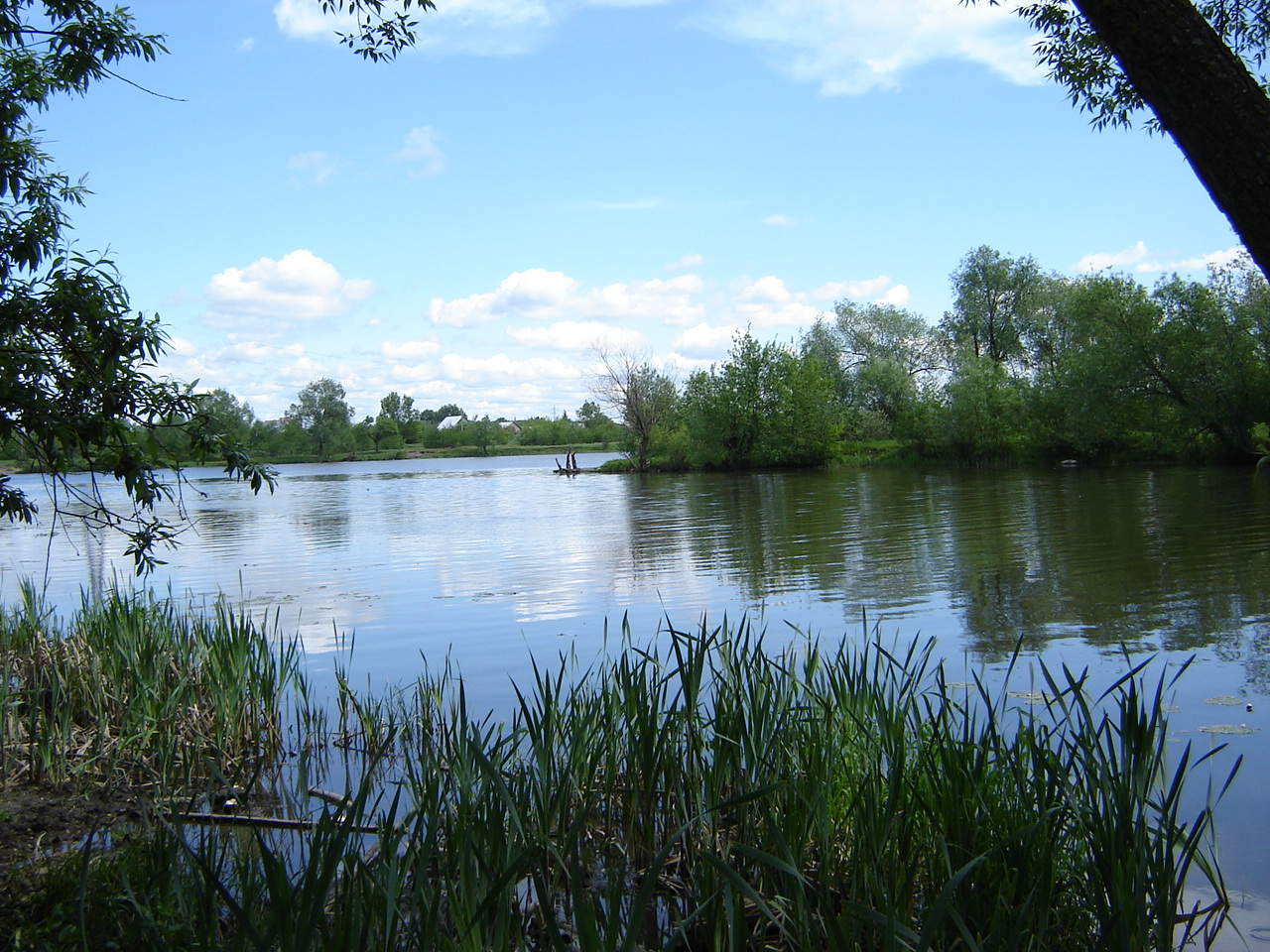 Confluence of the Penza in Sura.